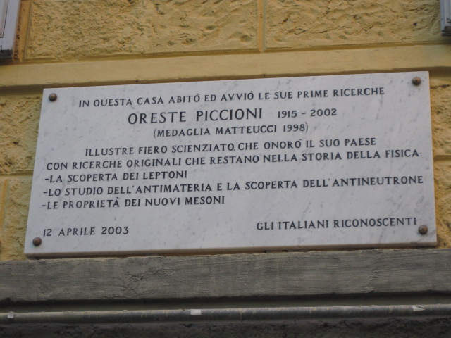 Plaque to Oreste Piccioni in Grosseto